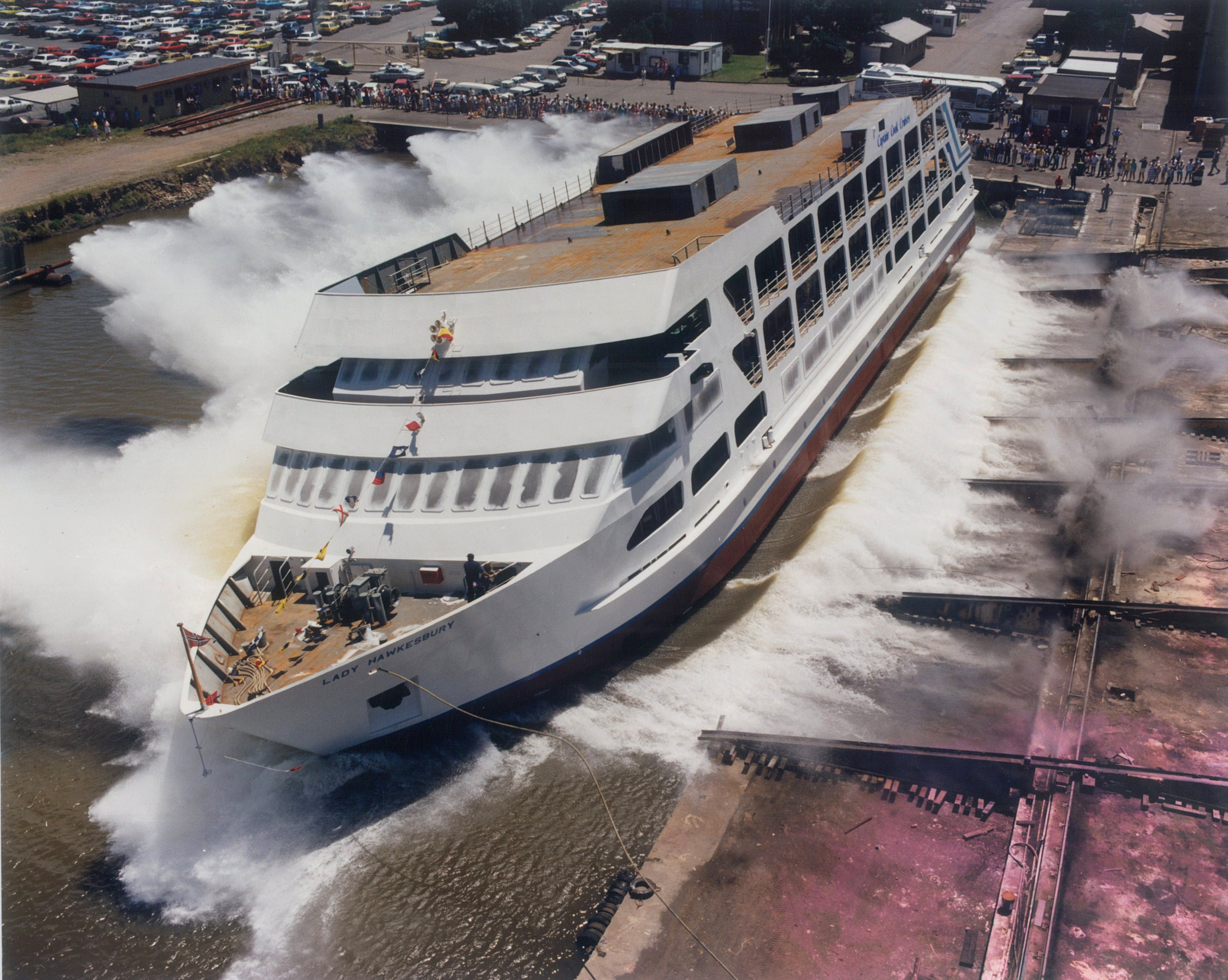 Lady Hawkesbury